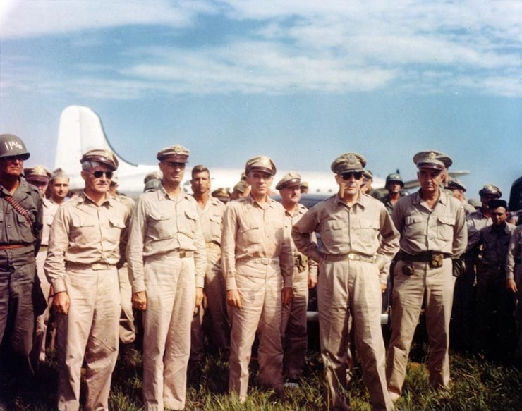 General of the Army Douglas MacArthur other senior Army officers, upon his arrival at Atsugi airdrome, near Tokyo, Japan, 30 August 1945. Among those present are: Major General Joseph M. Swing, Commanding General, 11th Airborne Division, (left); Lieutenant General Richard K. Sutherland (3rd from right); General Robert L. Eichelberger (right). Aircraft in the background is a Douglas C-54. Photograph from the Army Signal Corps Collection in the U.S. National Archives.